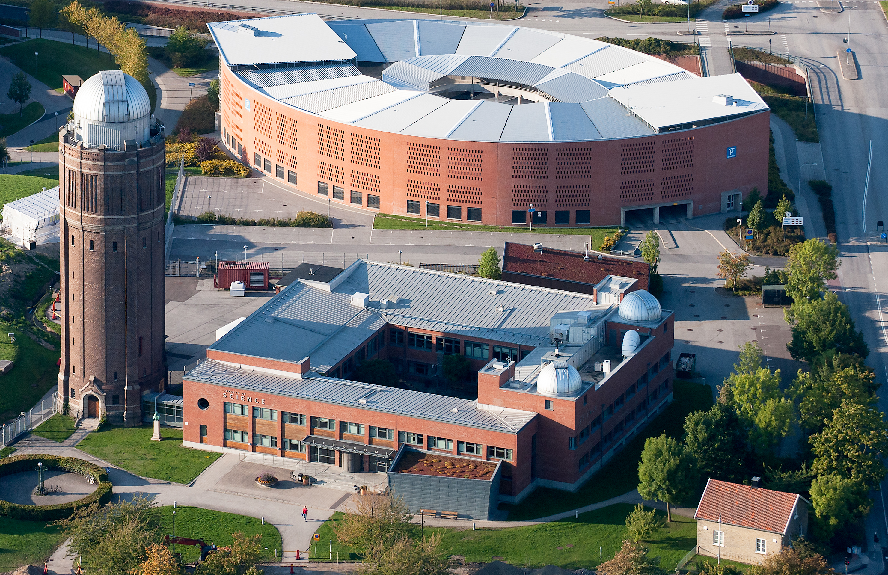 Department of Astronomy at Lund University, Sweden.